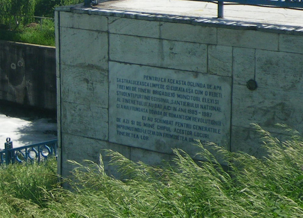 Inscription on Lacul Morii Dam, showing the number of "volunteers" forced by the comunist regime to work.